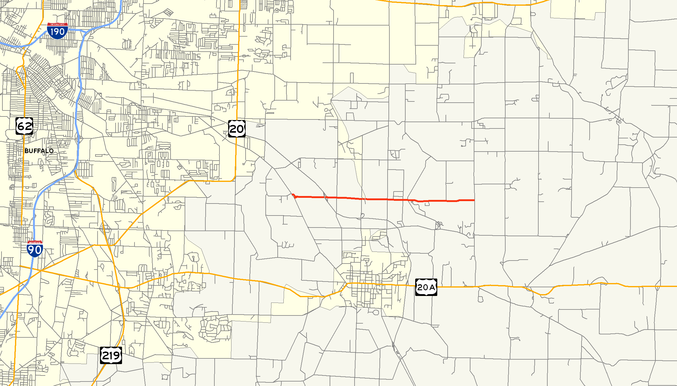 Map of NY CR 574